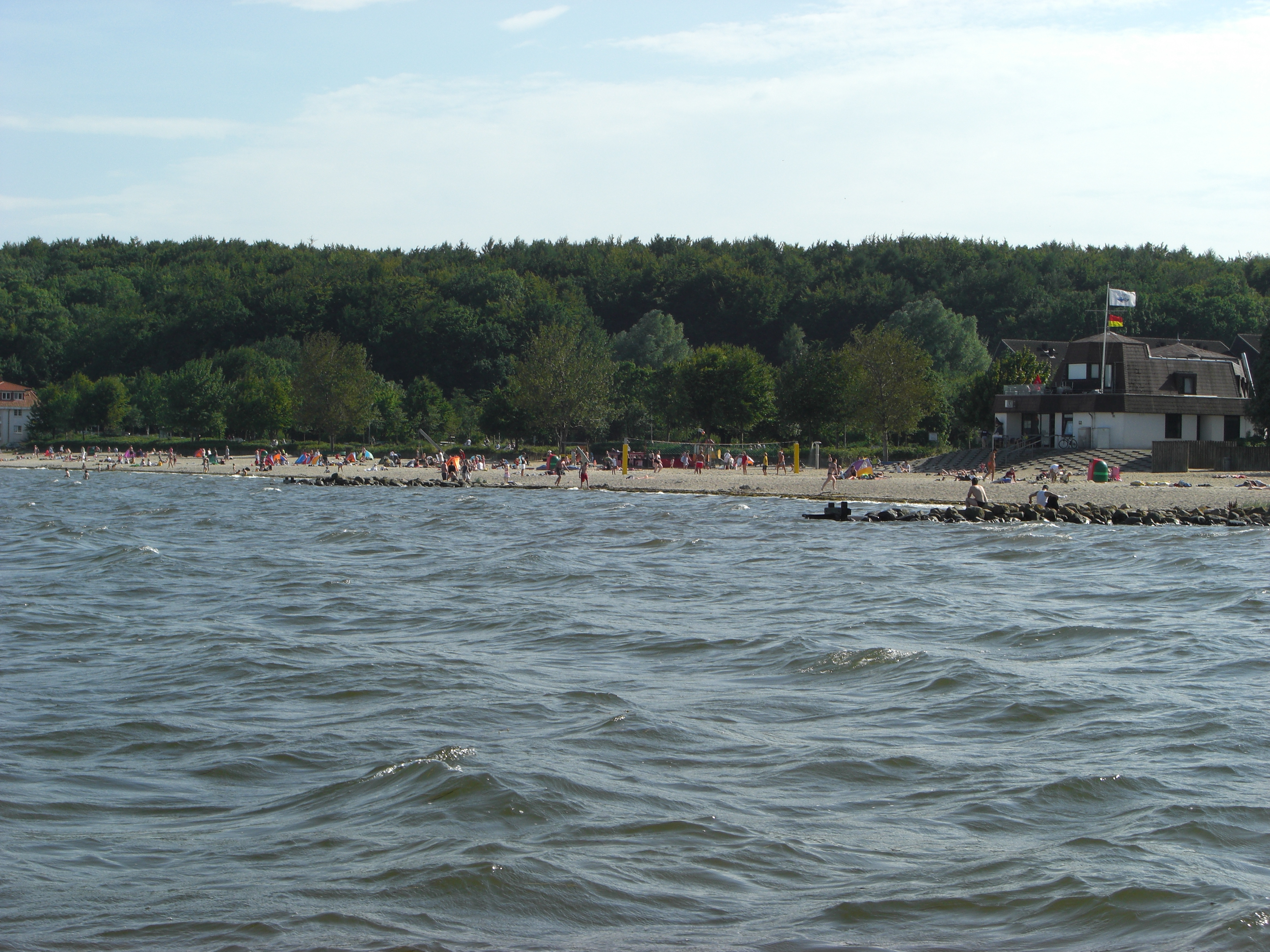 wassersleben beach, dlrg station